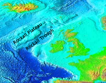 Northeast Atlantic bathymetry with Rockall Plateau and Trough labelled.